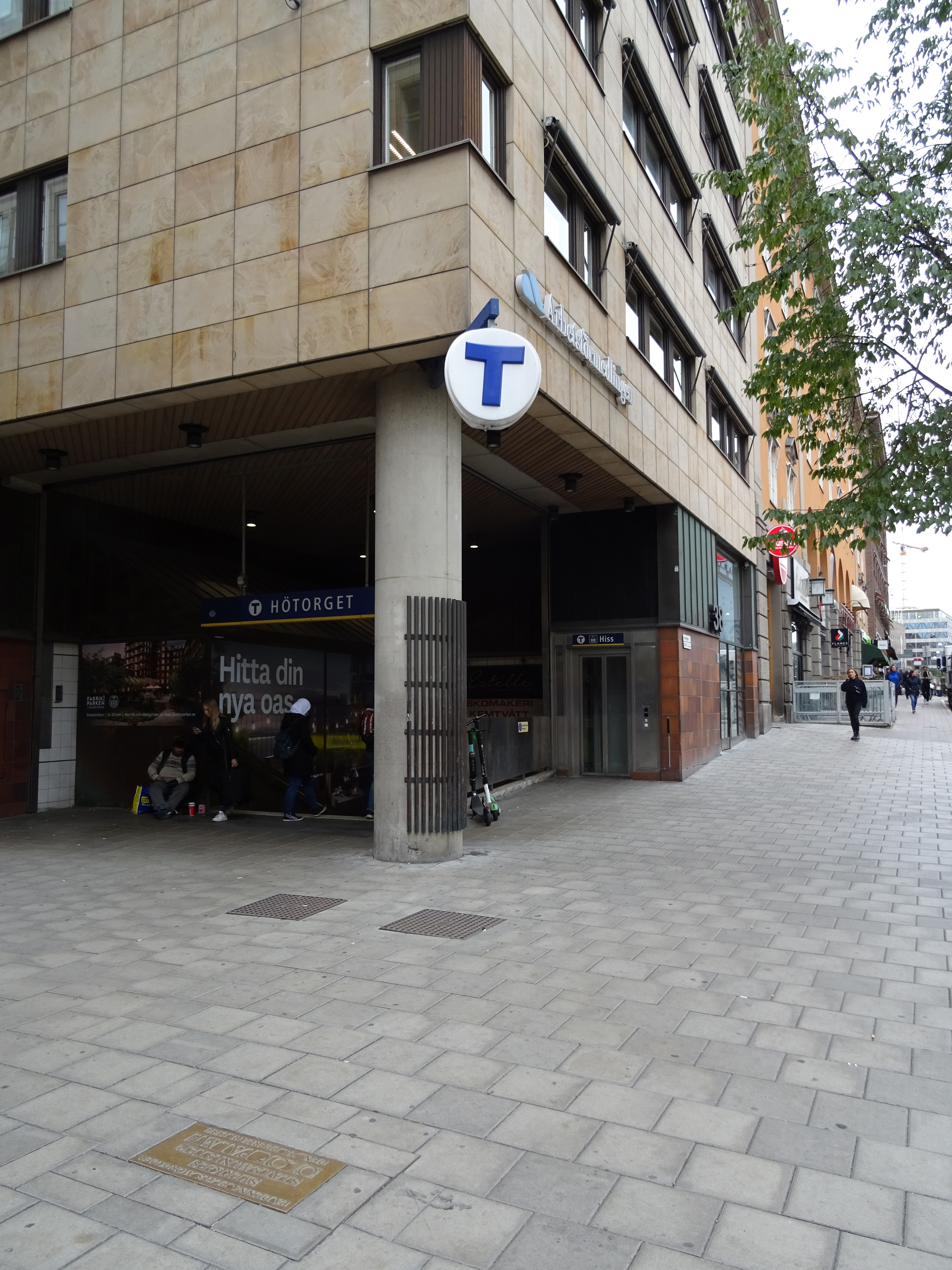 Corner of Sveavägen & Tunnelgatan, Stockholm - site of the murder of Swedish Prime Minister Olof Palme on 28 February 1986